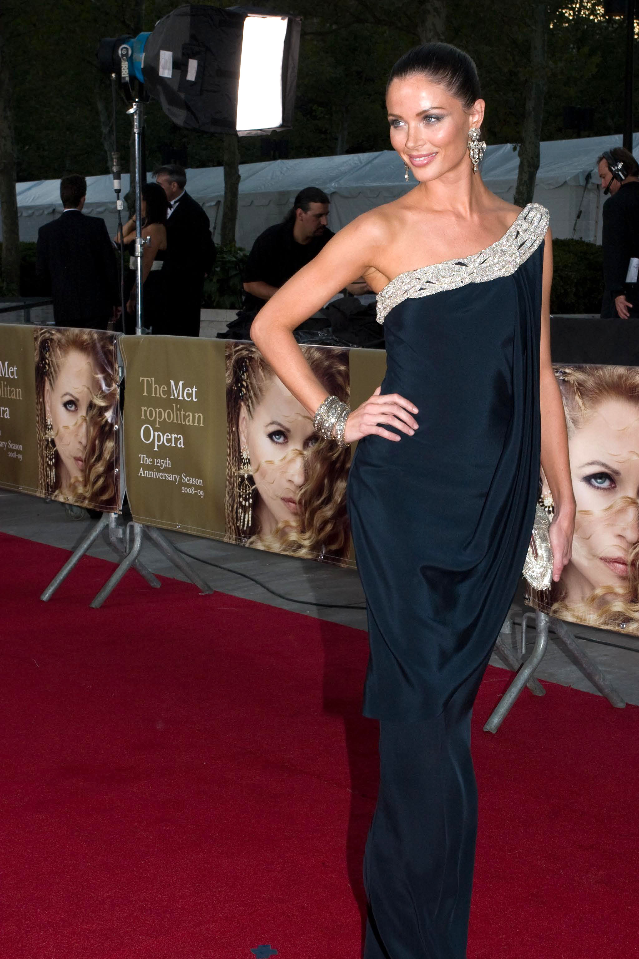 Georgina Chapman at the Metropolitan Opera opening in 2008. © Rubenstein, photographer Martyna Borkowski